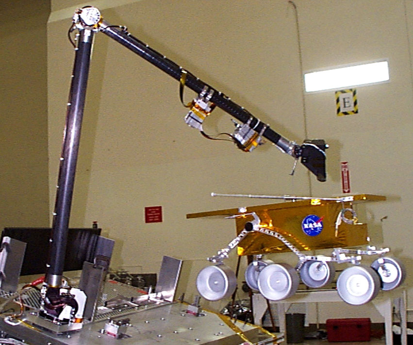 Mars Surveyor 2001 Rover, Marie Curie.